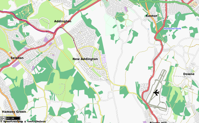 This map may be incomplete, and may contain errors. Don't rely solely on it for navigation.